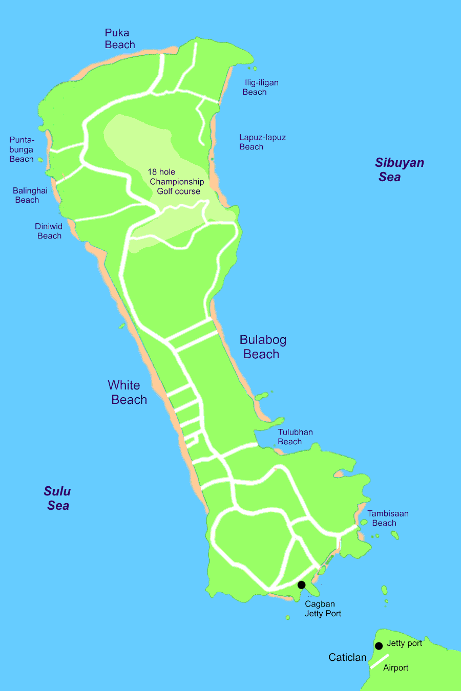 Sketch map of Boracay island Author: Bill Mitchell User:Wtmitchell